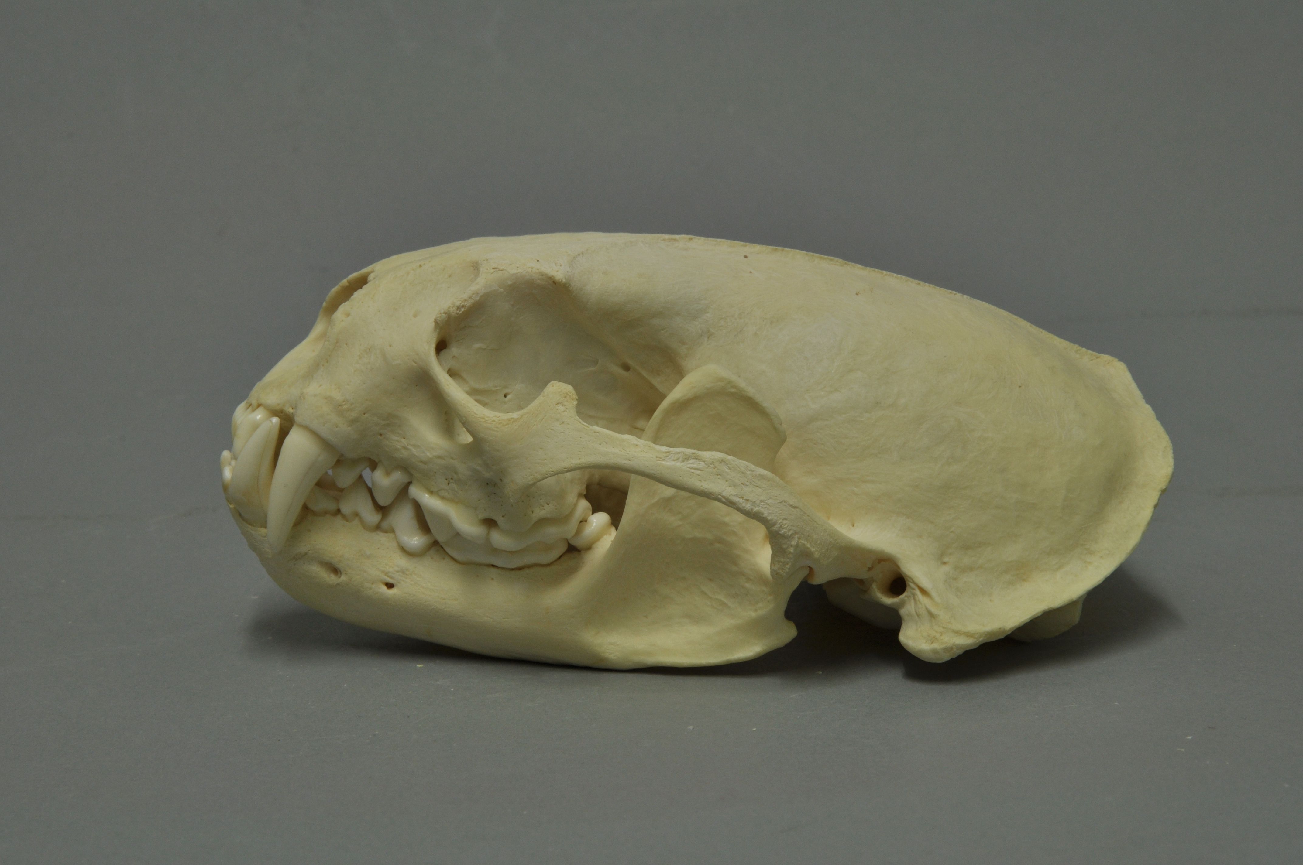 African clawless otter Aonyx capensis, skull, Coll. Museum Wiesbaden